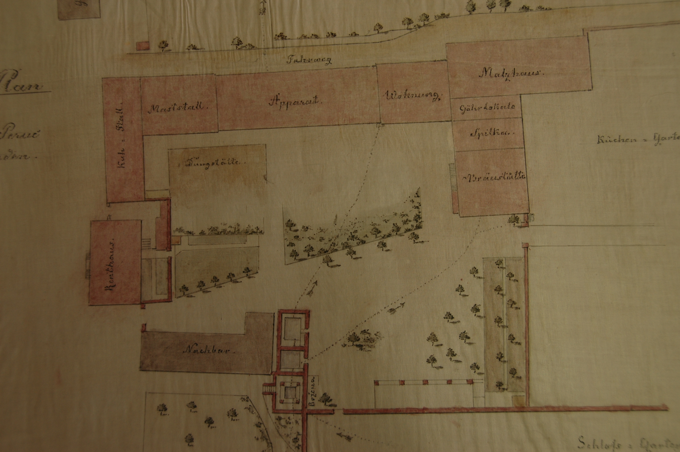 Original layout of Peruc brewery from State archive Děčín - section Thun